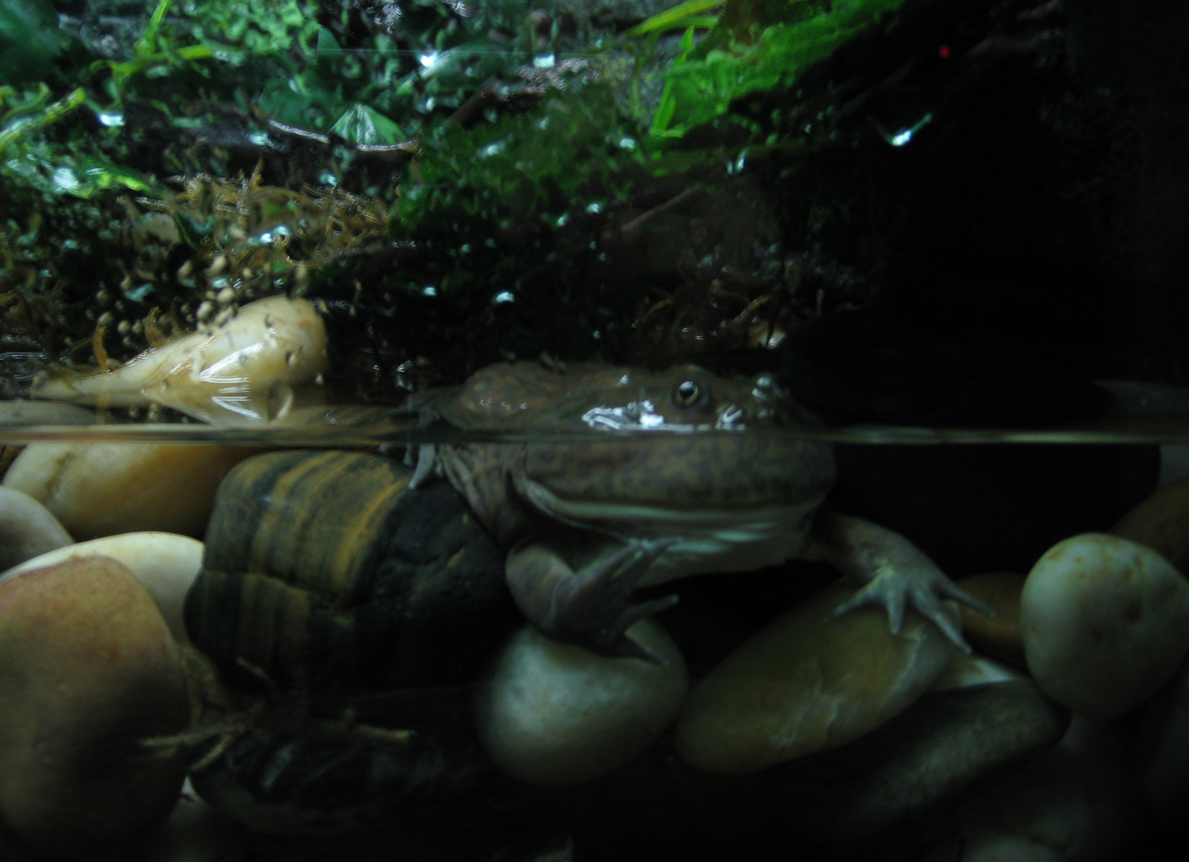 This is the photo of Lepidobatrachus llanensis or Baggett's Frog pictured in aqua park in Shanghai.